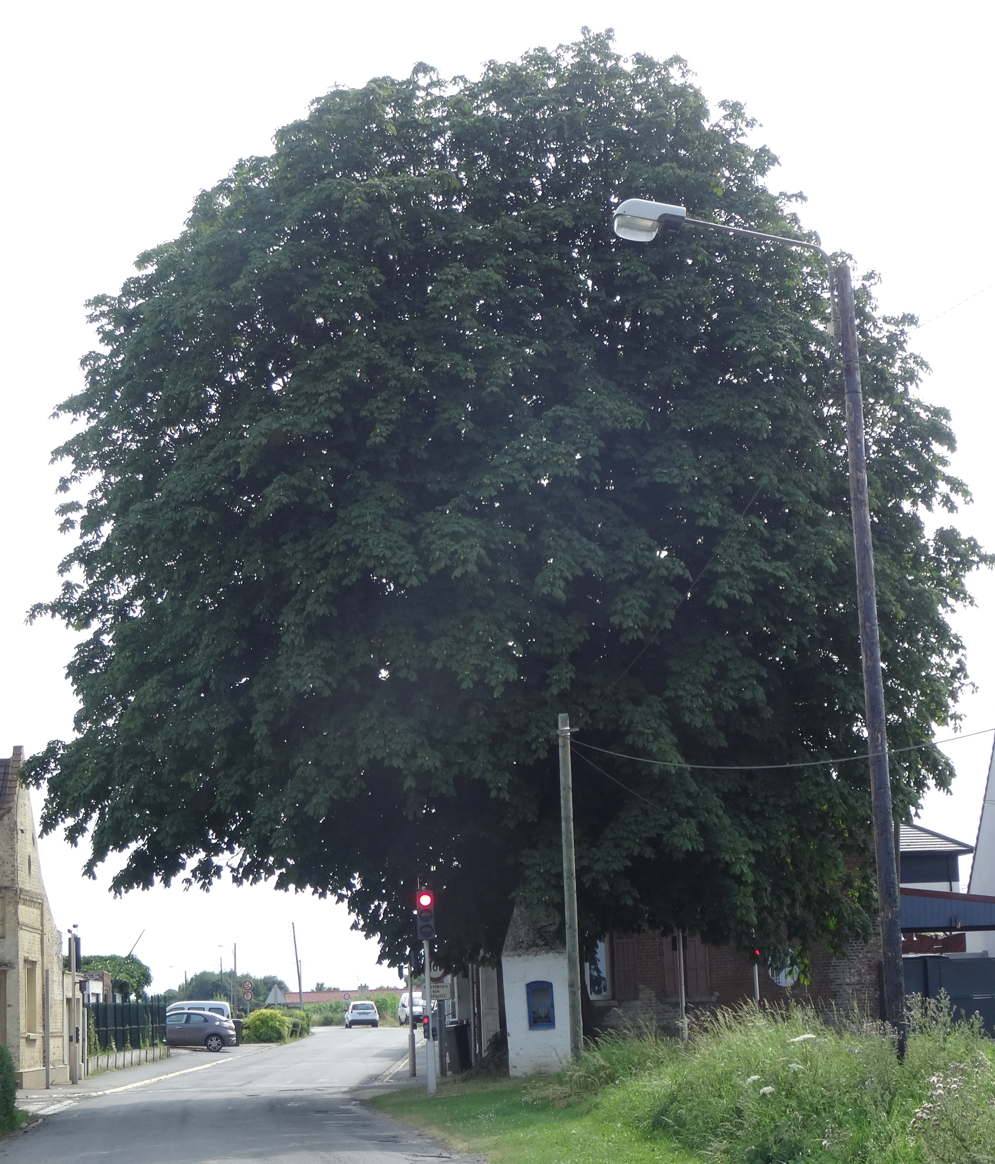 Depicted place: Q59584167